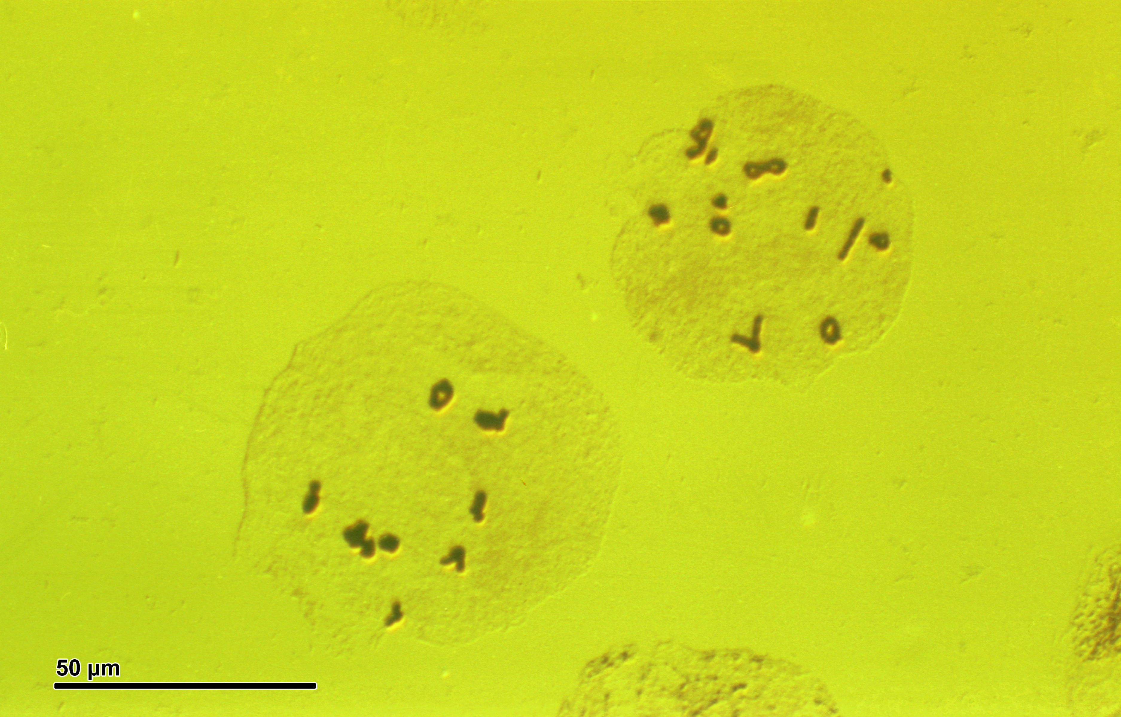 Meiosis: Grasshopper testes (gametes in diakinesis). Optical microscopy technique: Differential interference contrast (Nomarski). Magnification: 1200x (for picture width 26 cm ~ A4 format).